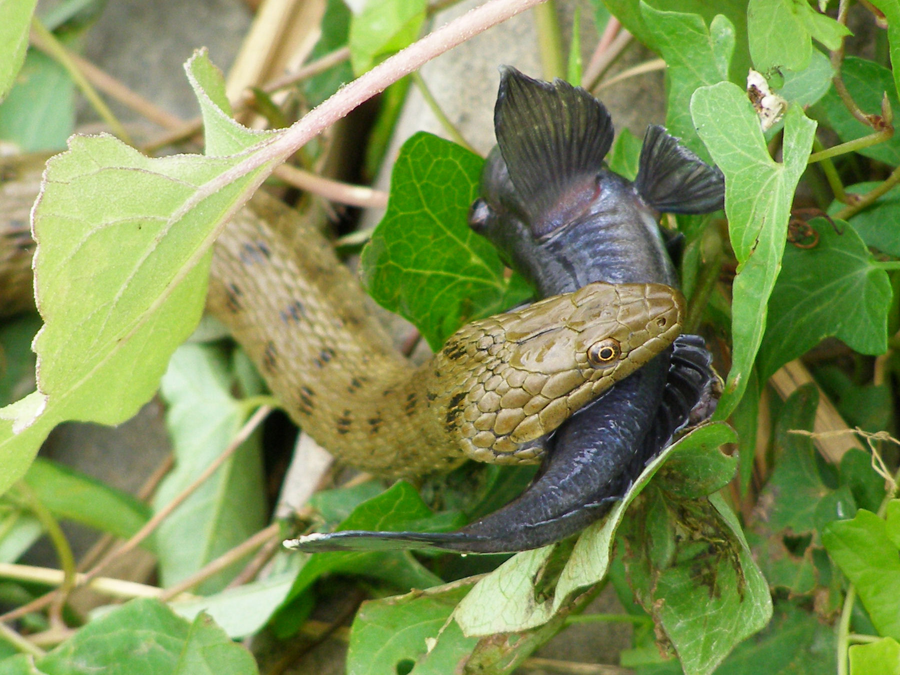 Dice Snake (Natrix tessellata) capturing a Gobius fish